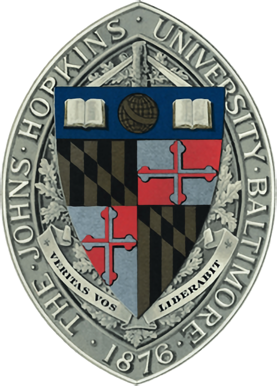 jhu seal